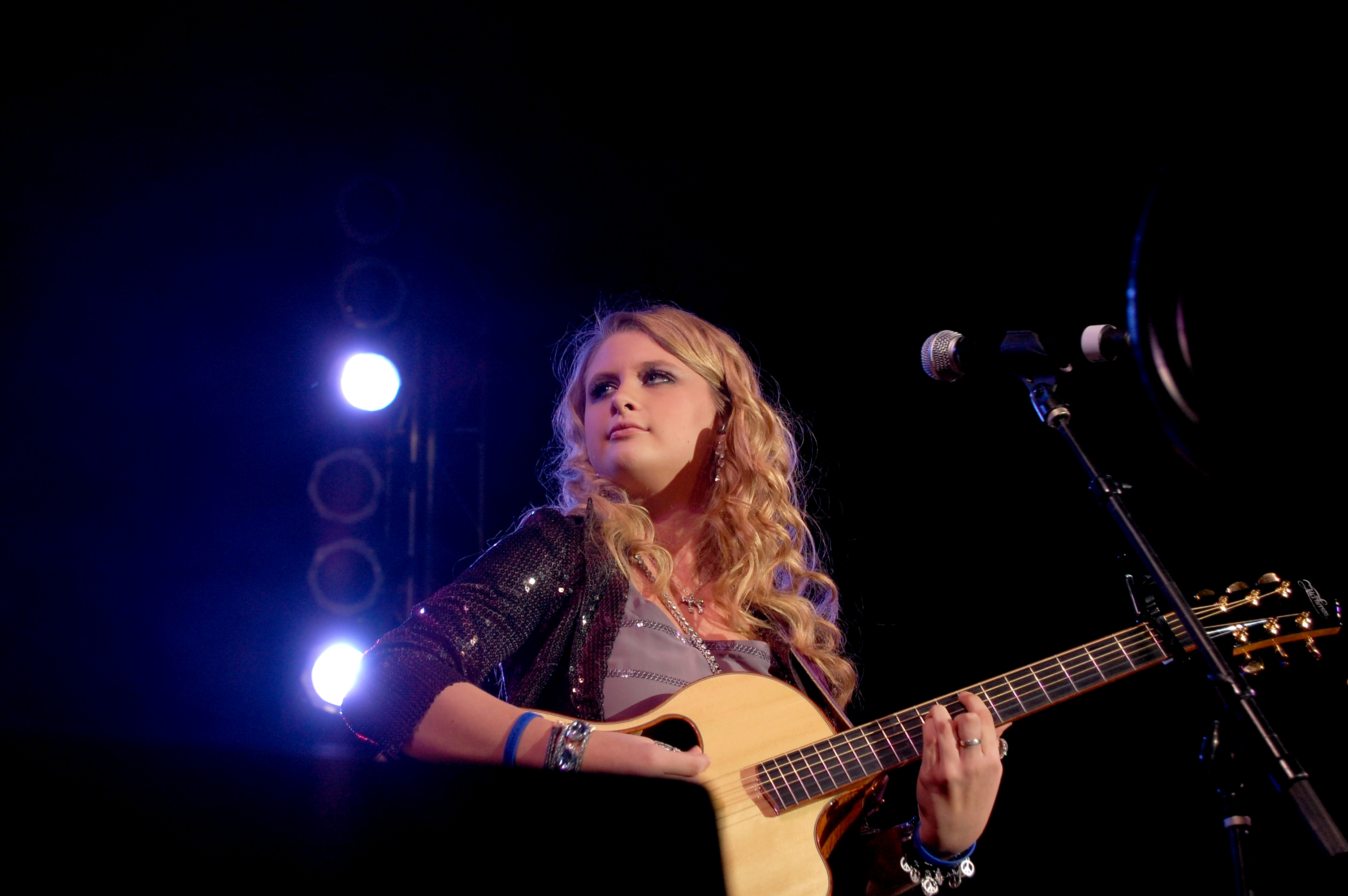 Anthem Tree Lighting Ceremony November 21, 2009 Outlets at Anthem